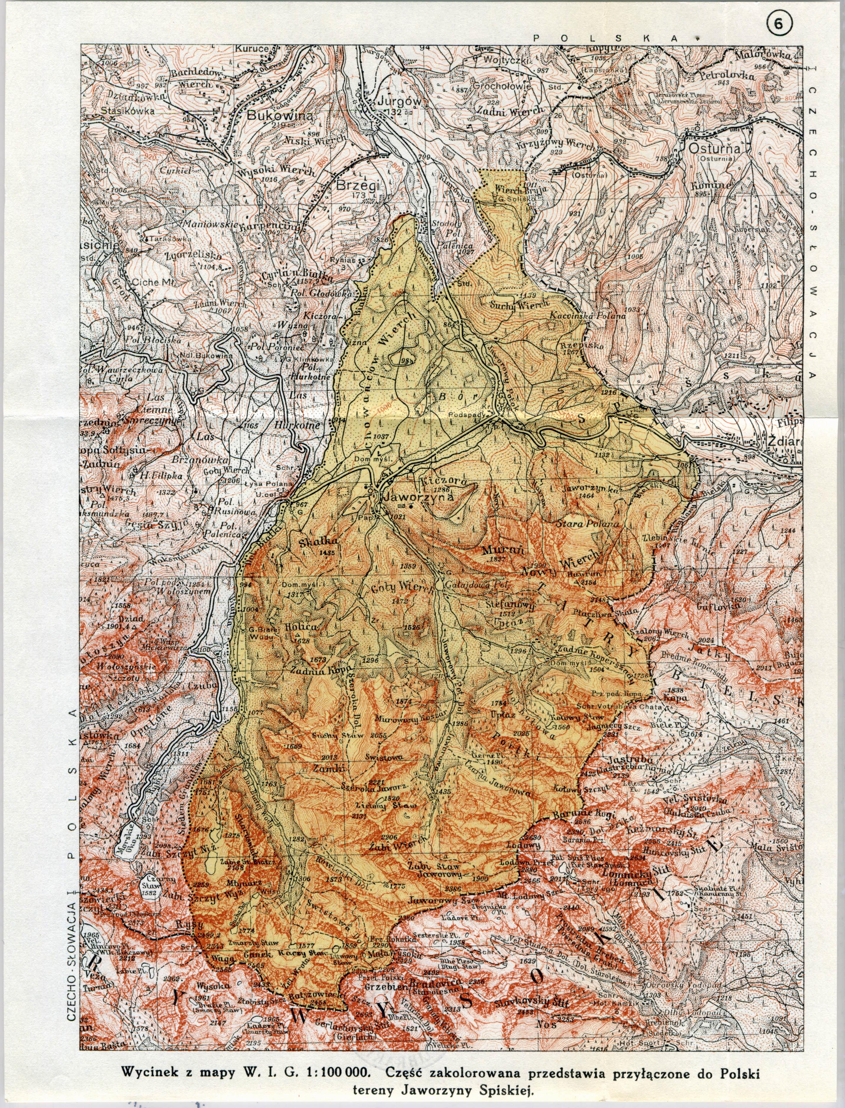 Area of Spisz annexed to Poland in 01.12.1938.